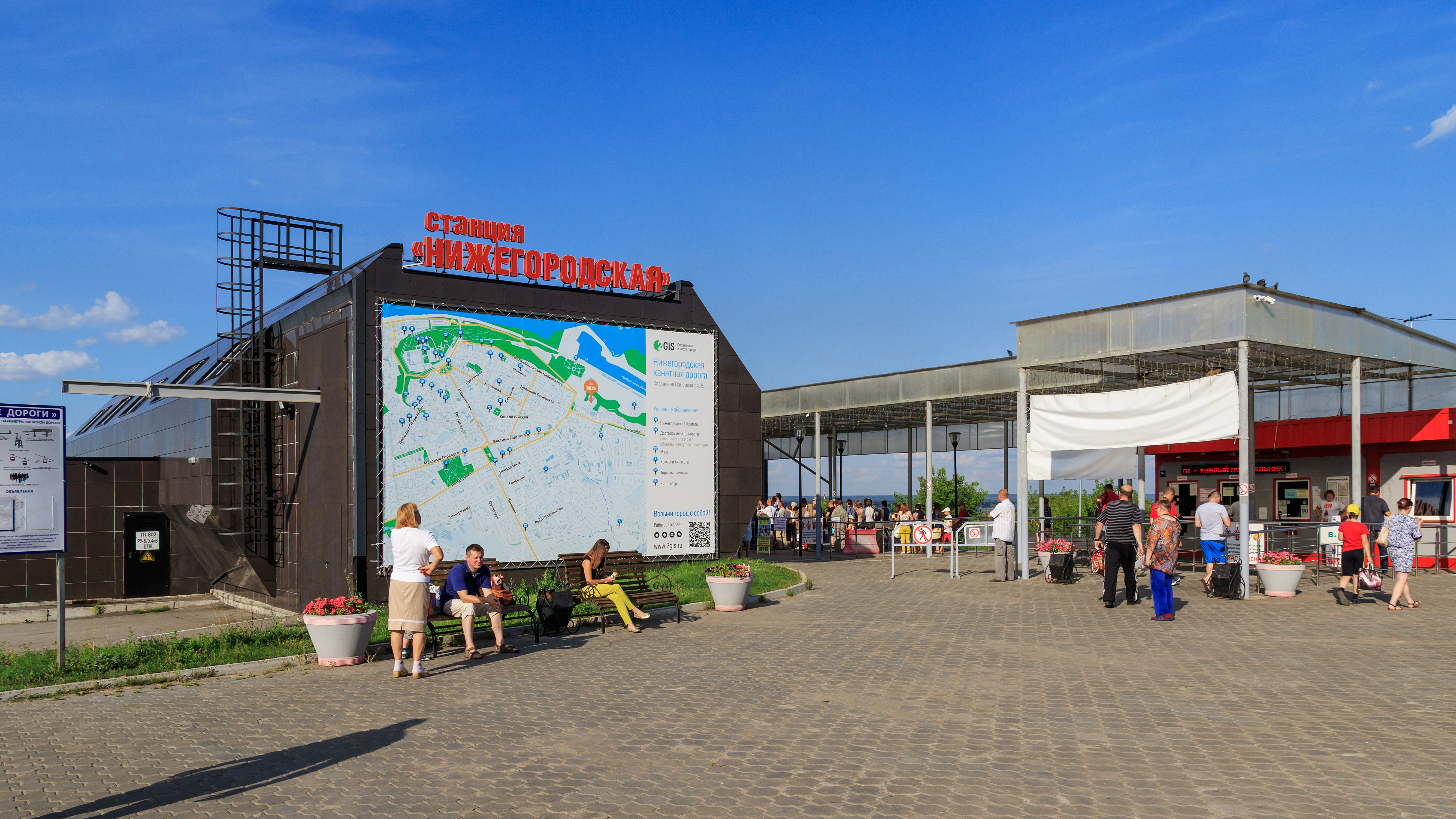 Nizhny Novgorod–Bor Volga cableway. Upper (Nizhegorodskaya) station. Nizhny Novgorod, Russia.